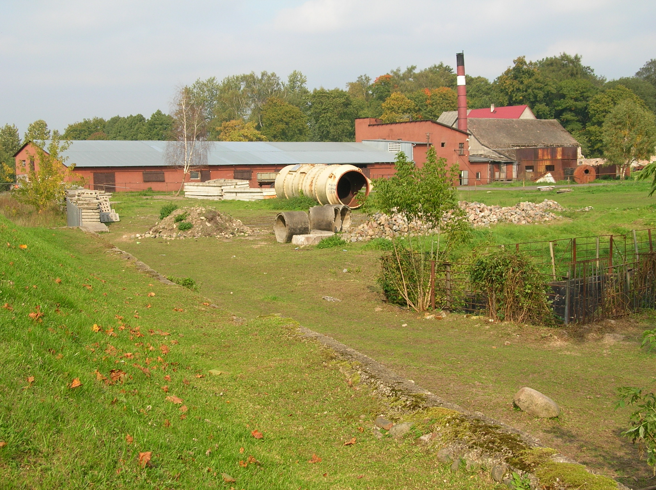 Distillery in Jeleń (Pomerania)